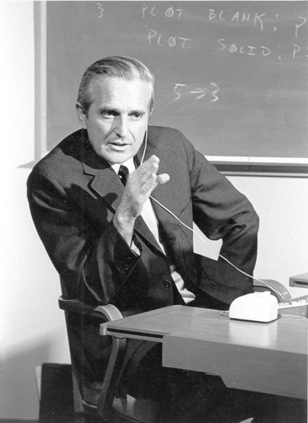 SRI’s Douglas Engelbart practices for the December 9, 1968 "mother of all demos"